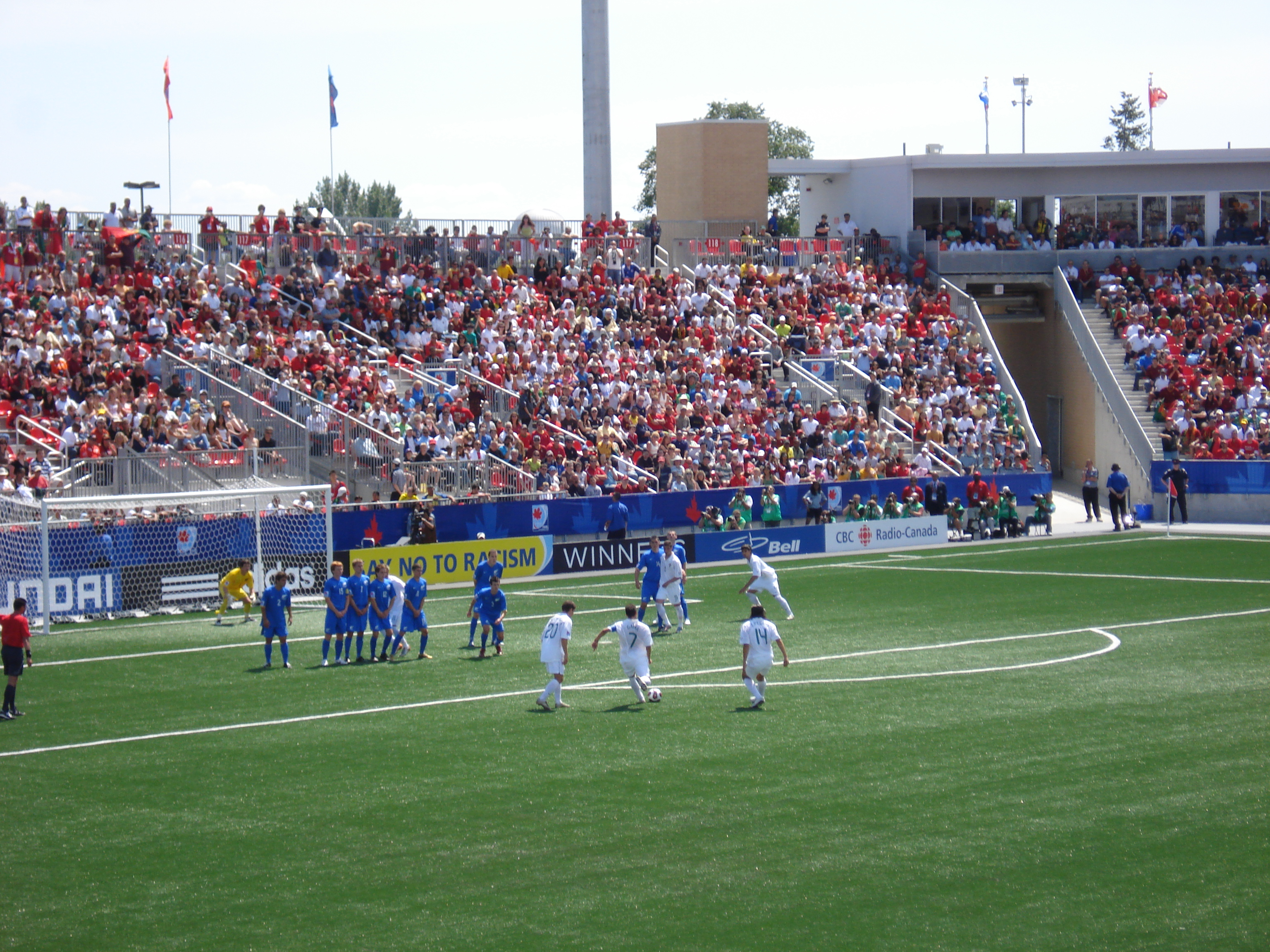 Portugal vs. New Zealand, FIFA U-20 World Cup 2007, Canada. PD: It's not a corner... it's a free kick